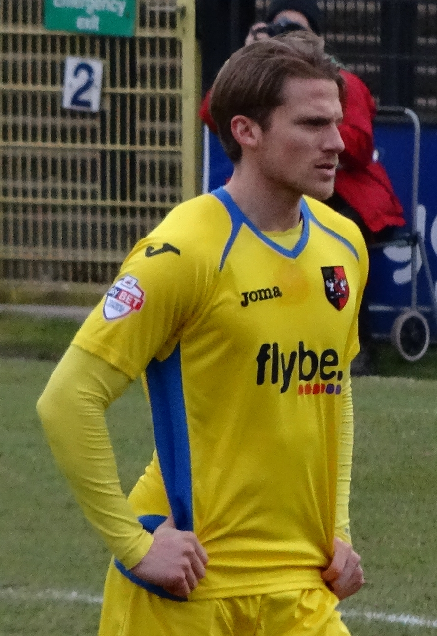 Christian Ribeiro playing for Exeter City against York City at Bootham Crescent, York on 28 February 2015